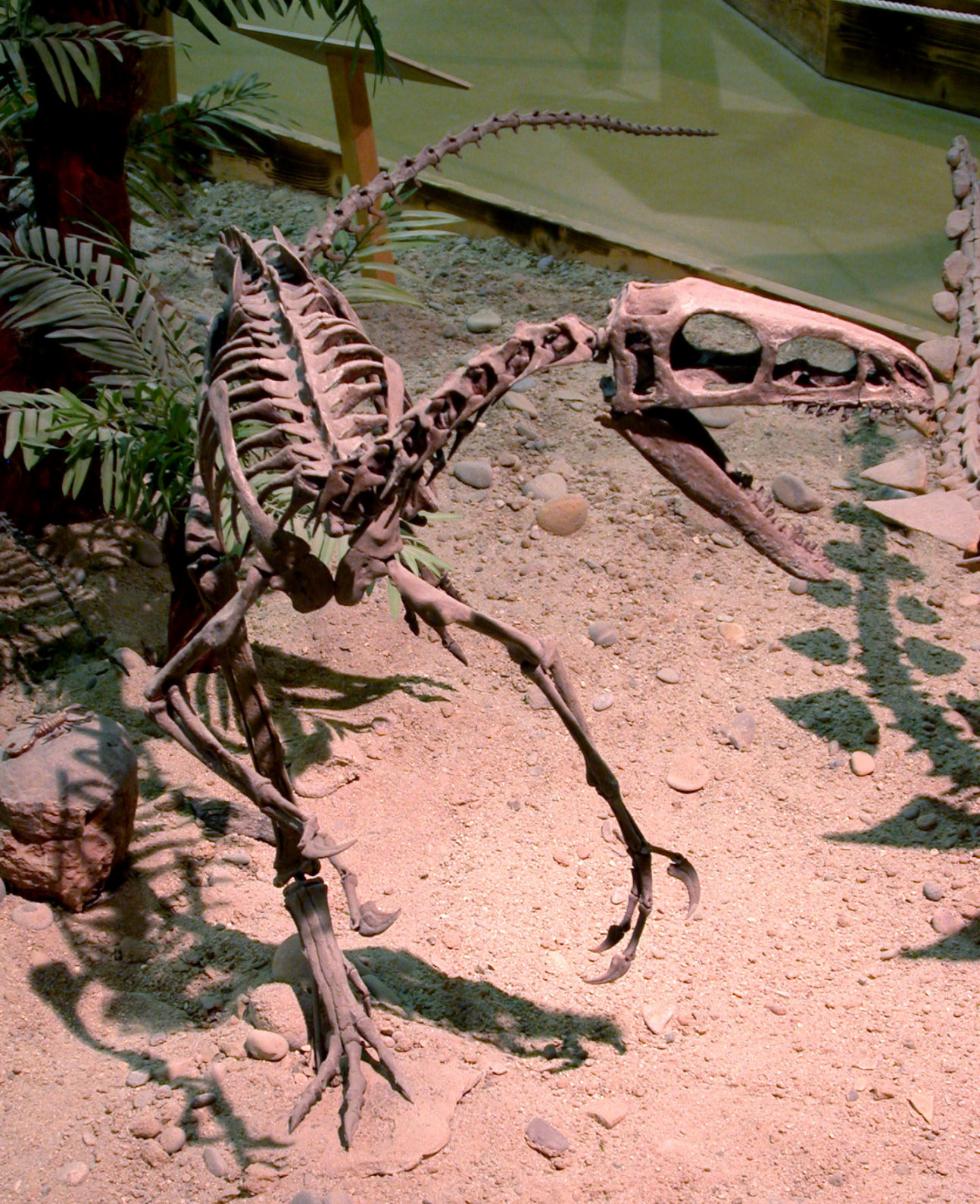 Zuni Coelurosaur, Wyoming Dinosaur Center, Thermopolis / 2006